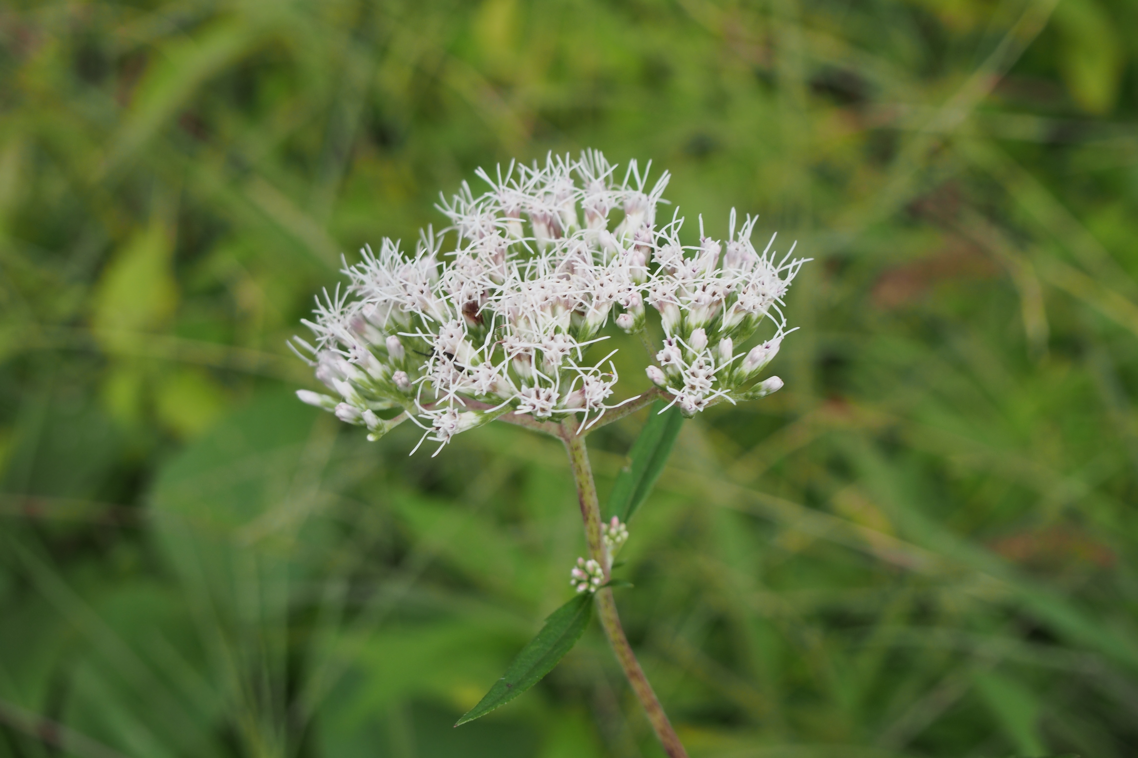 may be サワヒヨドリ. in Fruit and Flower park.